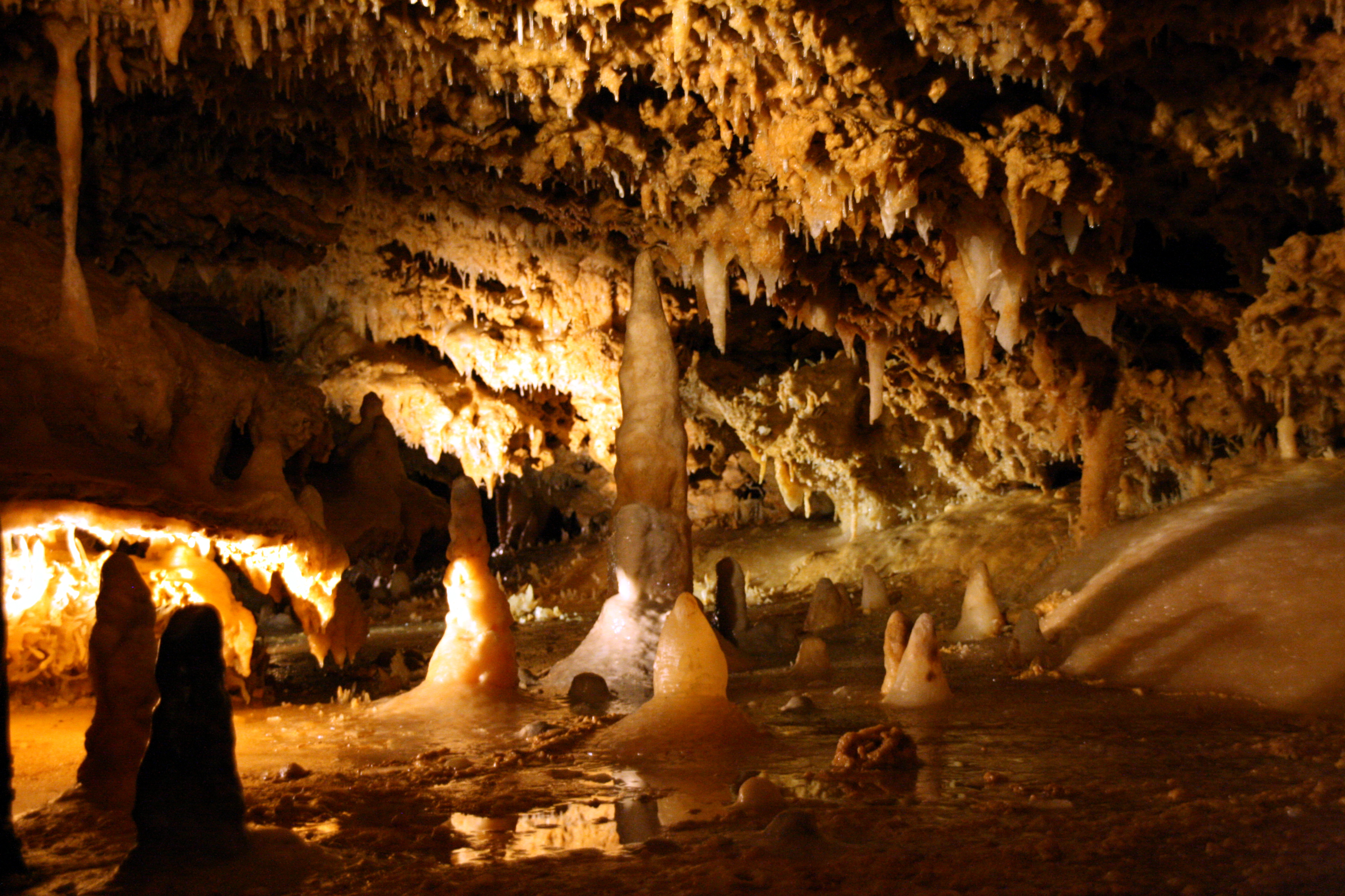 Inside of the Grand Roc cave ("Big Rock"), Les Eyzies de Tayac, Dordogne, France. This cave contains a lot of limestone cave formations. It's a Unesco World Heritage site, as part of the "Prehistoric Sites and Decorated Caves of the Vézère Valley".